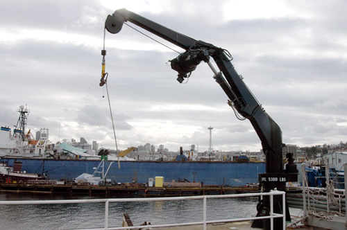 Davit on the NOAA-Ship McArthur II